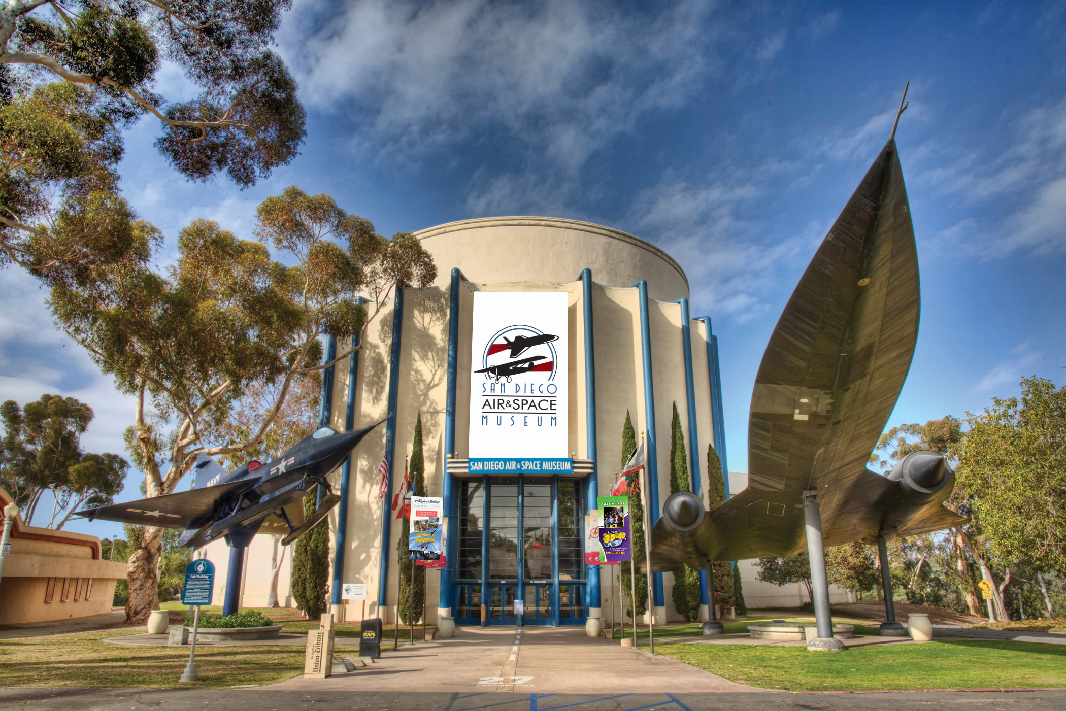 Entrance to the San Diego Air & Space Museum (formerly the Ford Building), with a Convair YF2Y-1 Seadart on the left and a Lockheed A-12 Oxcart on the right.